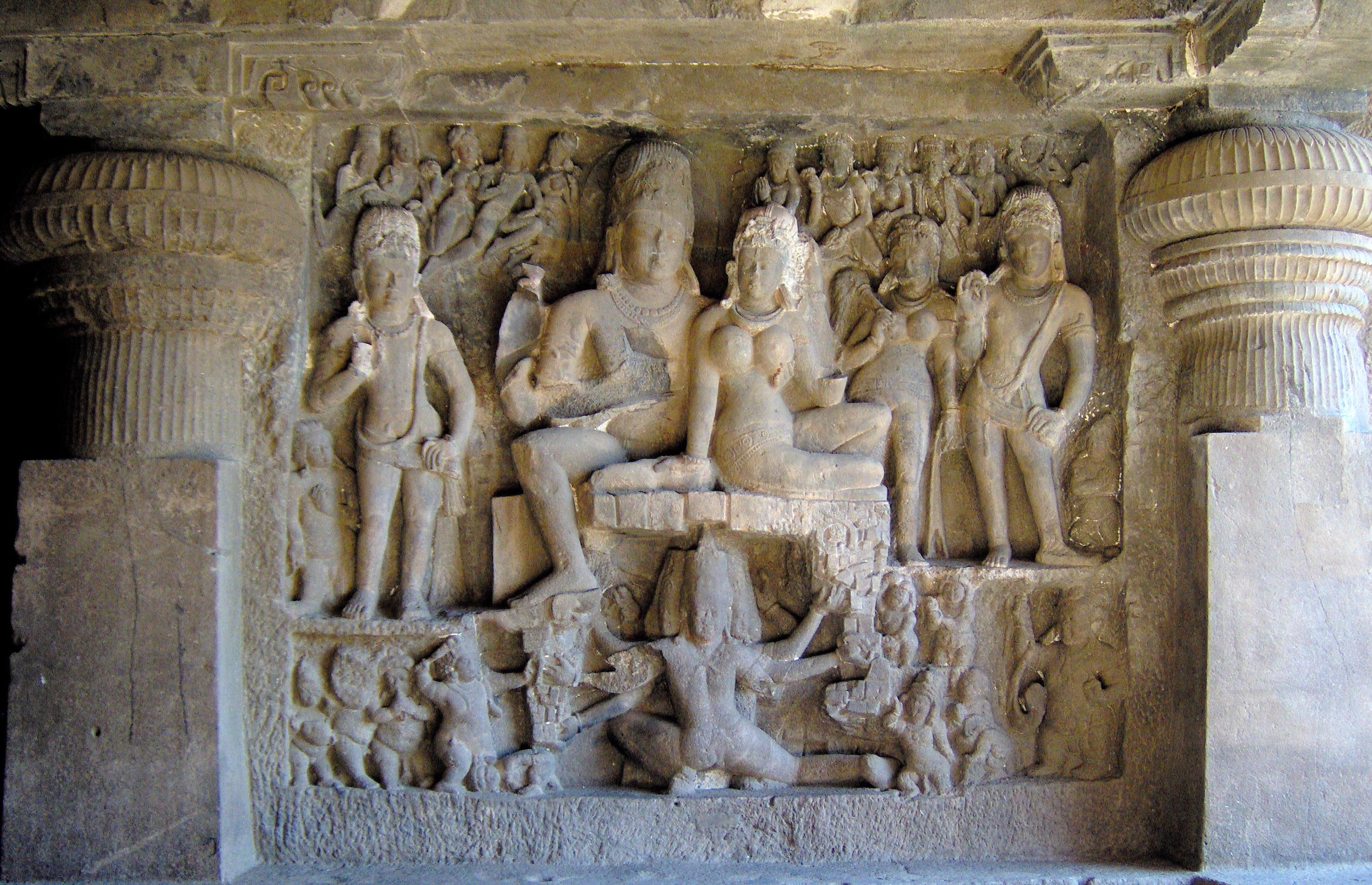 A bas-relief panel from Ellora (Cave 29, or Dhumar Lena) showing Shiva and Parvati while Ravana tries to shake Mt Kailasha. I took the photo myself, and release it under the licenses below. QuartierLatin1968 13:27, 6 December 2005 (UTC)